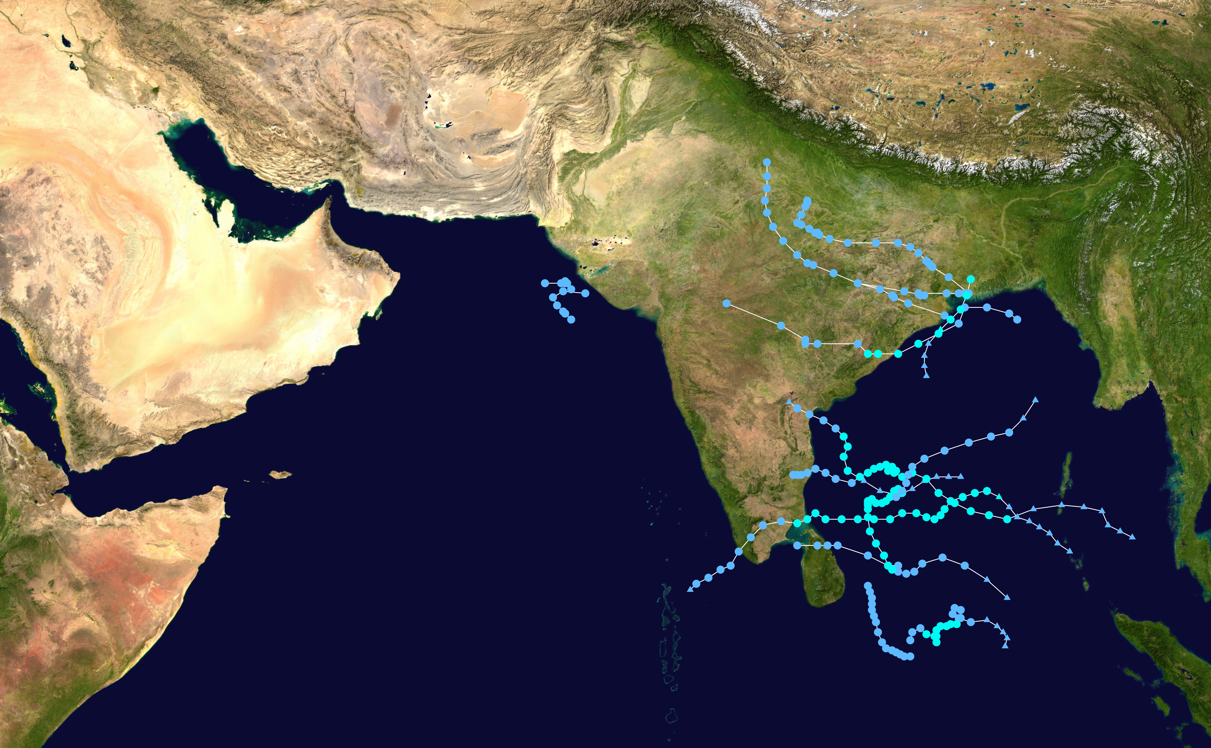 This map shows the tracks of all tropical cyclones in the 2005 North Indian Ocean cyclone season. The points show the location of each storm at 6-hour intervals. The colour represents the storm's maximum sustained wind speeds as classified in the Saffir-Simpson Hurricane Scale (see below), and the shape of the data points represent the nature of the storm. Map generation parameters: --xmin 45 --xmax 100 --dots 0.15 --lines 0.03 Saffir–Simpson hurricane wind scale Tropical depression≤38 mph≤62 km/h Category 3111–129 mph178–208 km/h Tropical storm39–73 mph63–118 km/h Category 4130–156 mph209–251 km/h Category 174–95 mph119–153 km/h Category 5≥157 mph≥252 km/h Category 296–110 mph154–177 km/h Unknown Storm typeTropical cycloneSubtropical cycloneExtratropical cyclone / Remnant low / Tropical disturbance